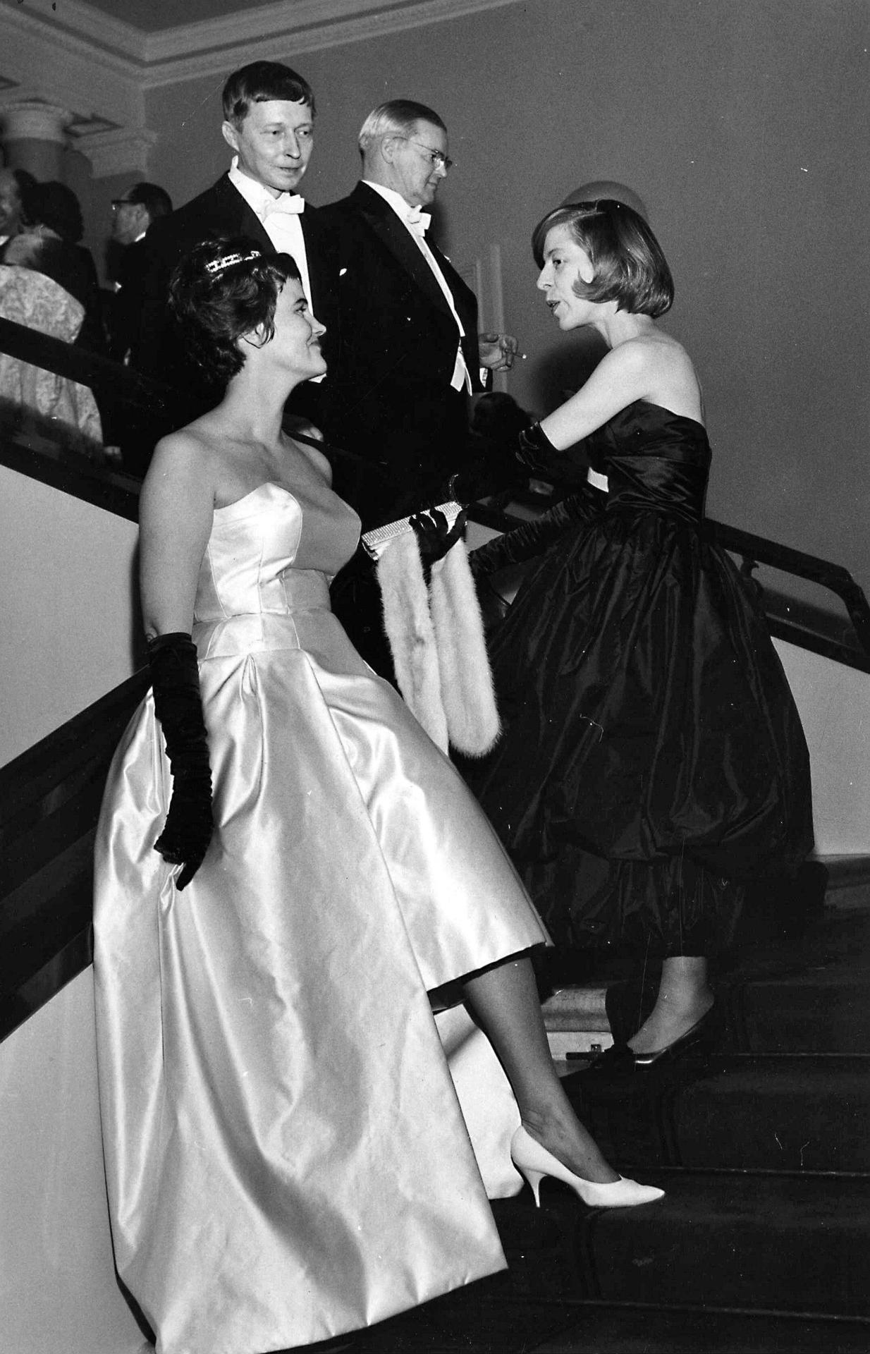 Photograph of the Finnish designers Nanny Still (1926–2009) and Birger Kaipiainen (1915–1988) and Mrs. Maggi Kaipiainen at Finland’s Independence Day reception, Presidential Palace, Helsinki.